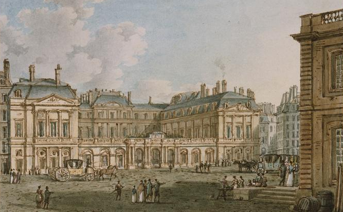 The Palais Royal in circa 1810 by Victor-Jean Nicolle (1754-1826)